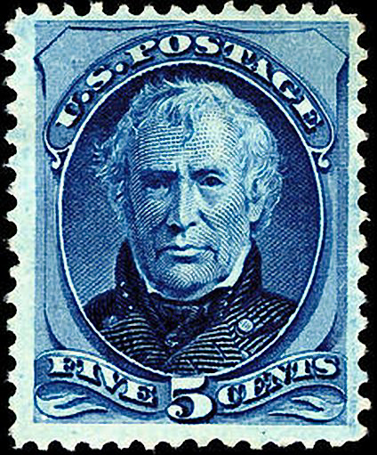 Zachary_Taylor_1875_Issue-5c.jpg